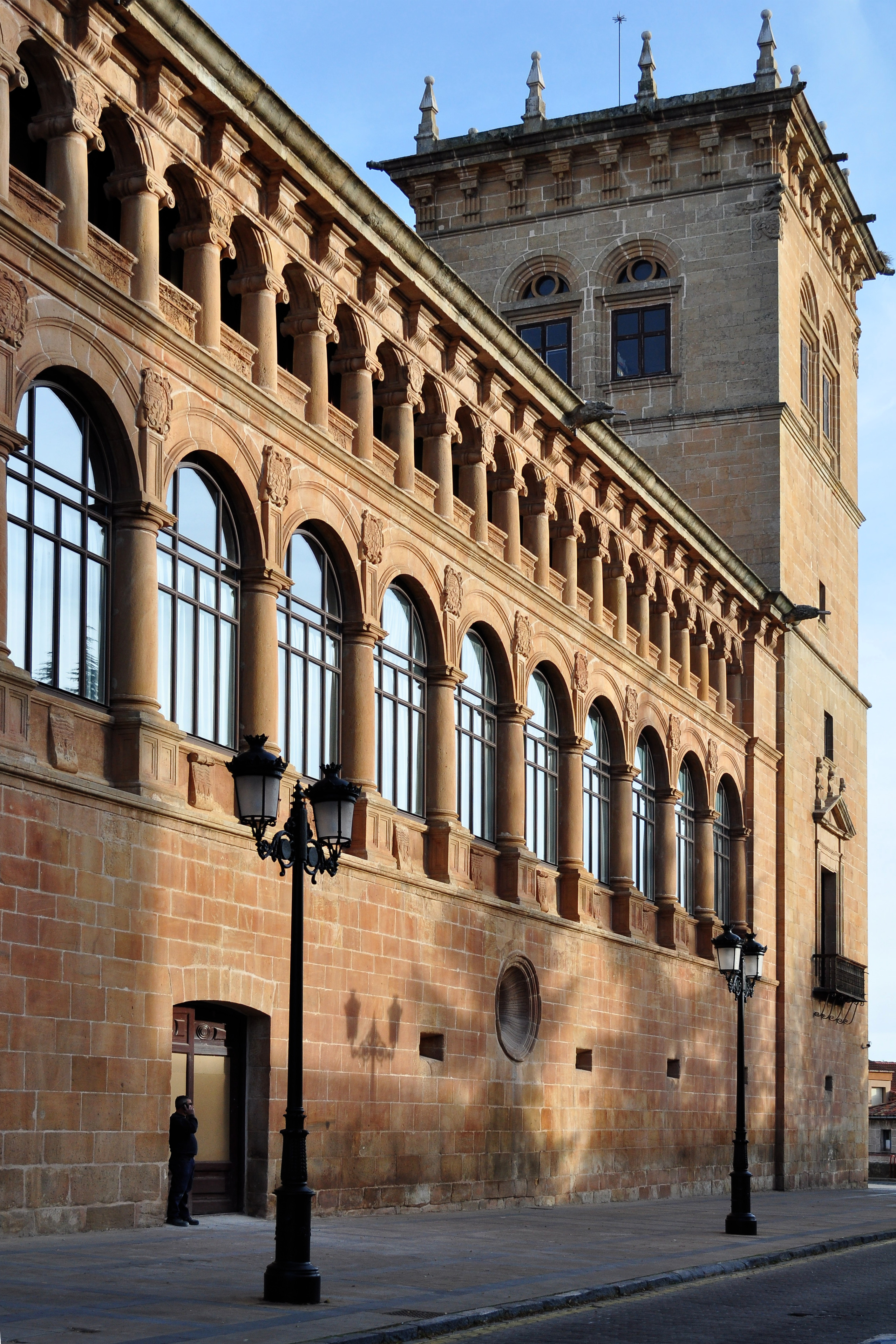 Palace of Condes de Gómara is the most representative building of Renaissance civil architecture of the city of Soria ( Spain ).